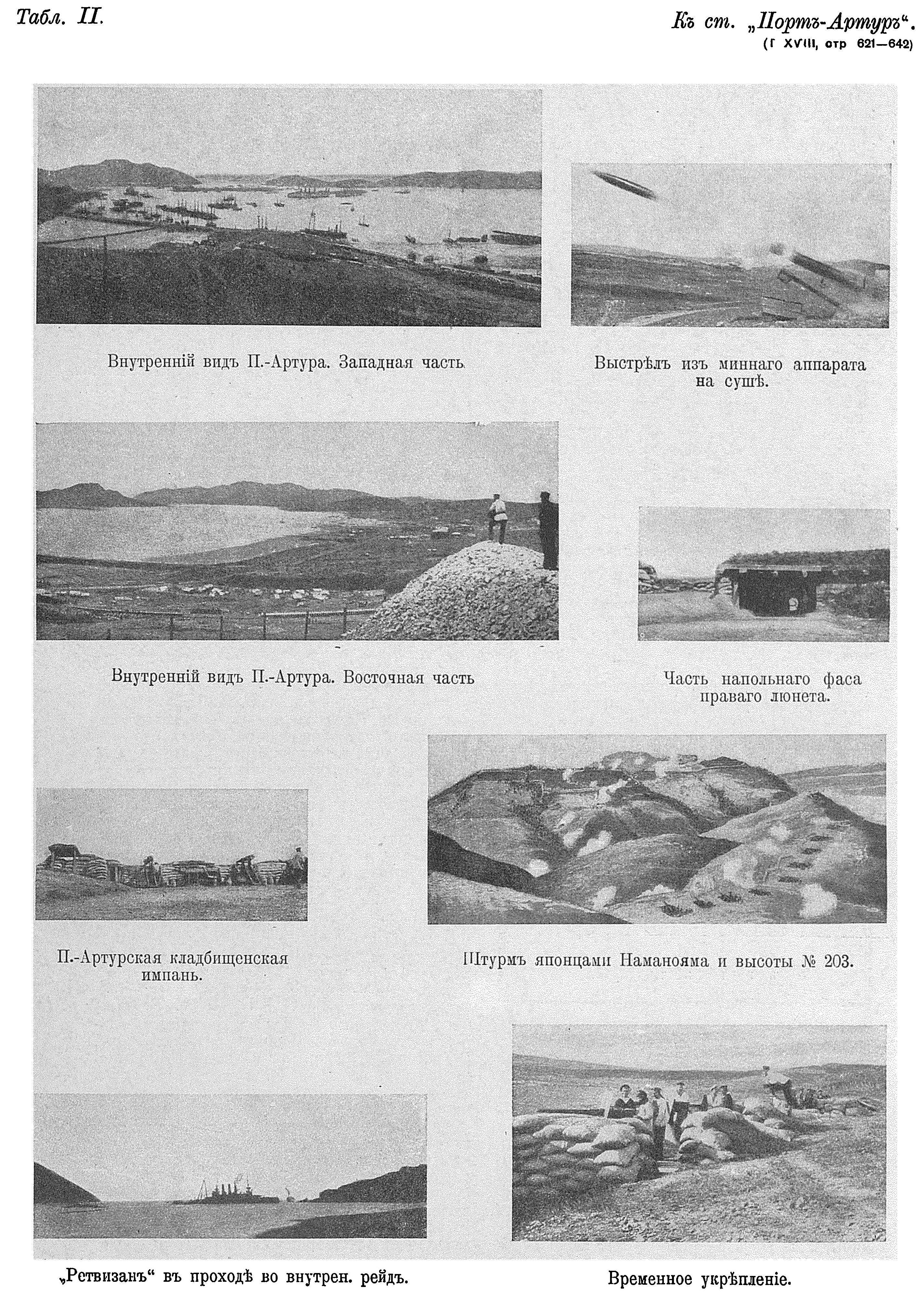 Port Arthur, China Кыргызча: Порт-Артур — Кытайдын сары деңизинде жайгашкан мурунку порттук шаар (тоңбогон порт, аскер-деңиздик база).